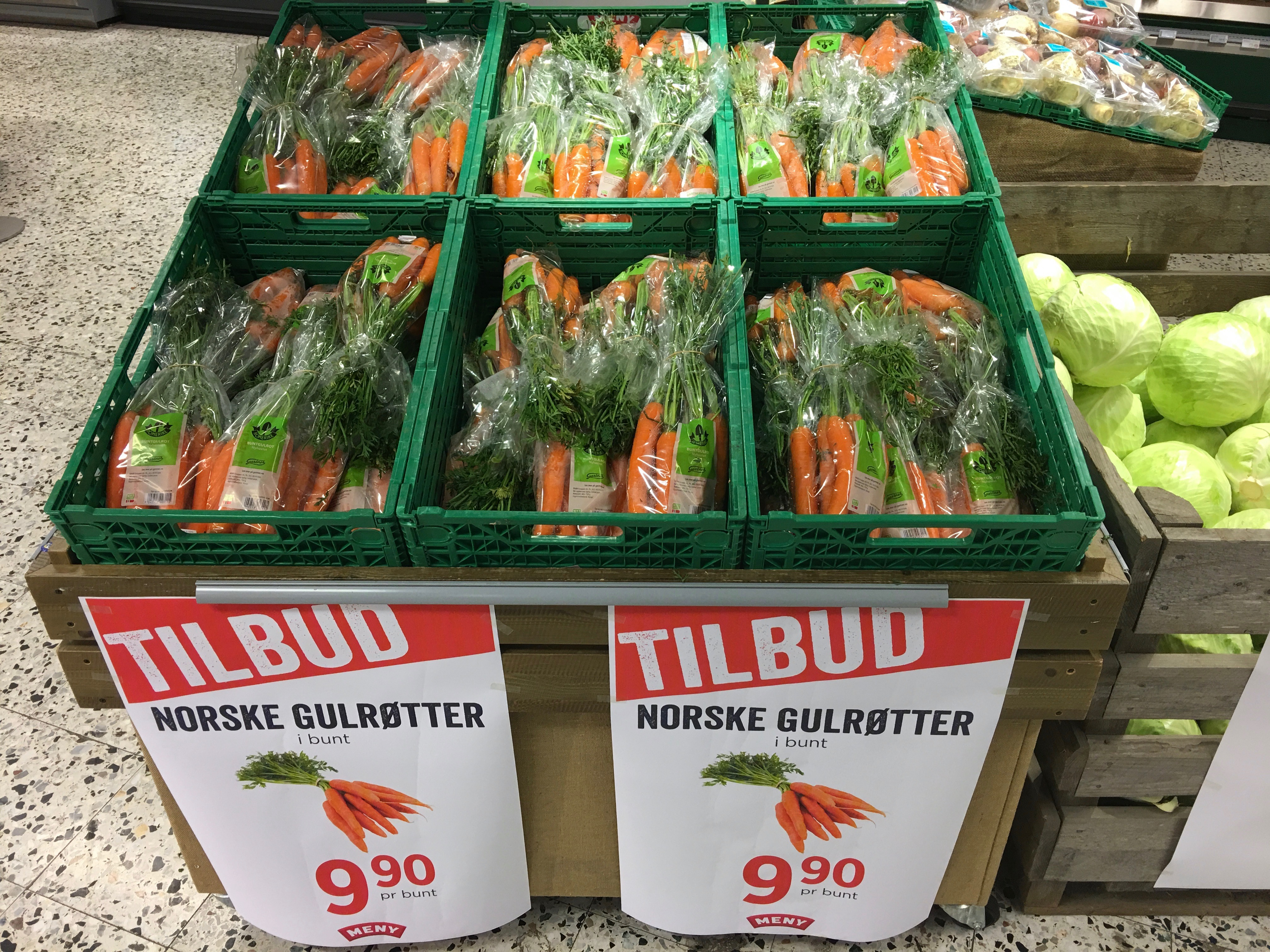 Carrots for sale at Meny supermarket in Tøsnberg, Norway September 2017.